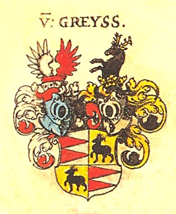 Coat of Arms of Greiss